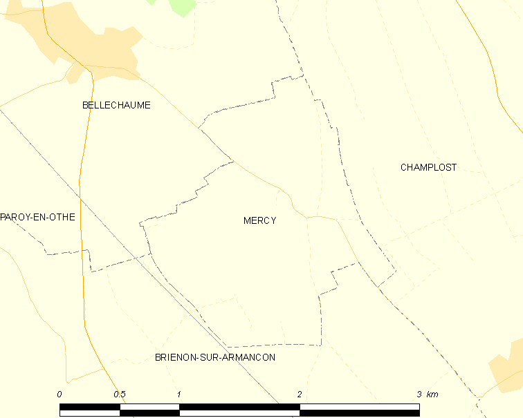 Map of French municipality Mercy